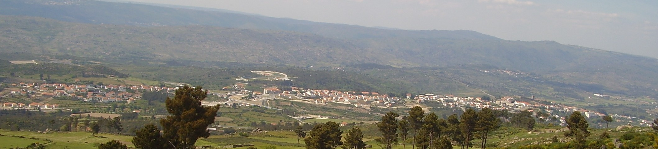 Vista Panoramica de Celorico da Beira